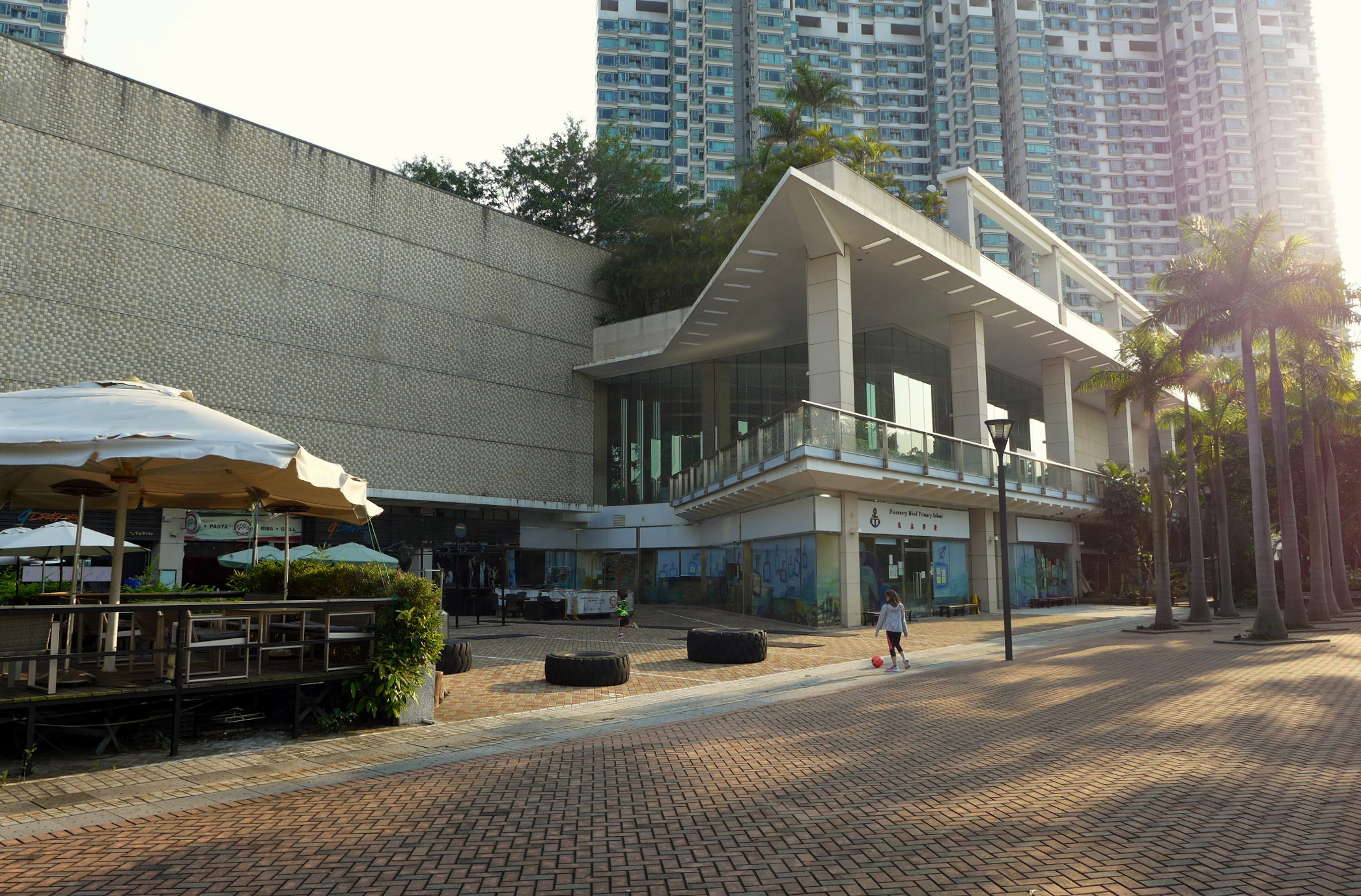 Seaview Crescent Shops